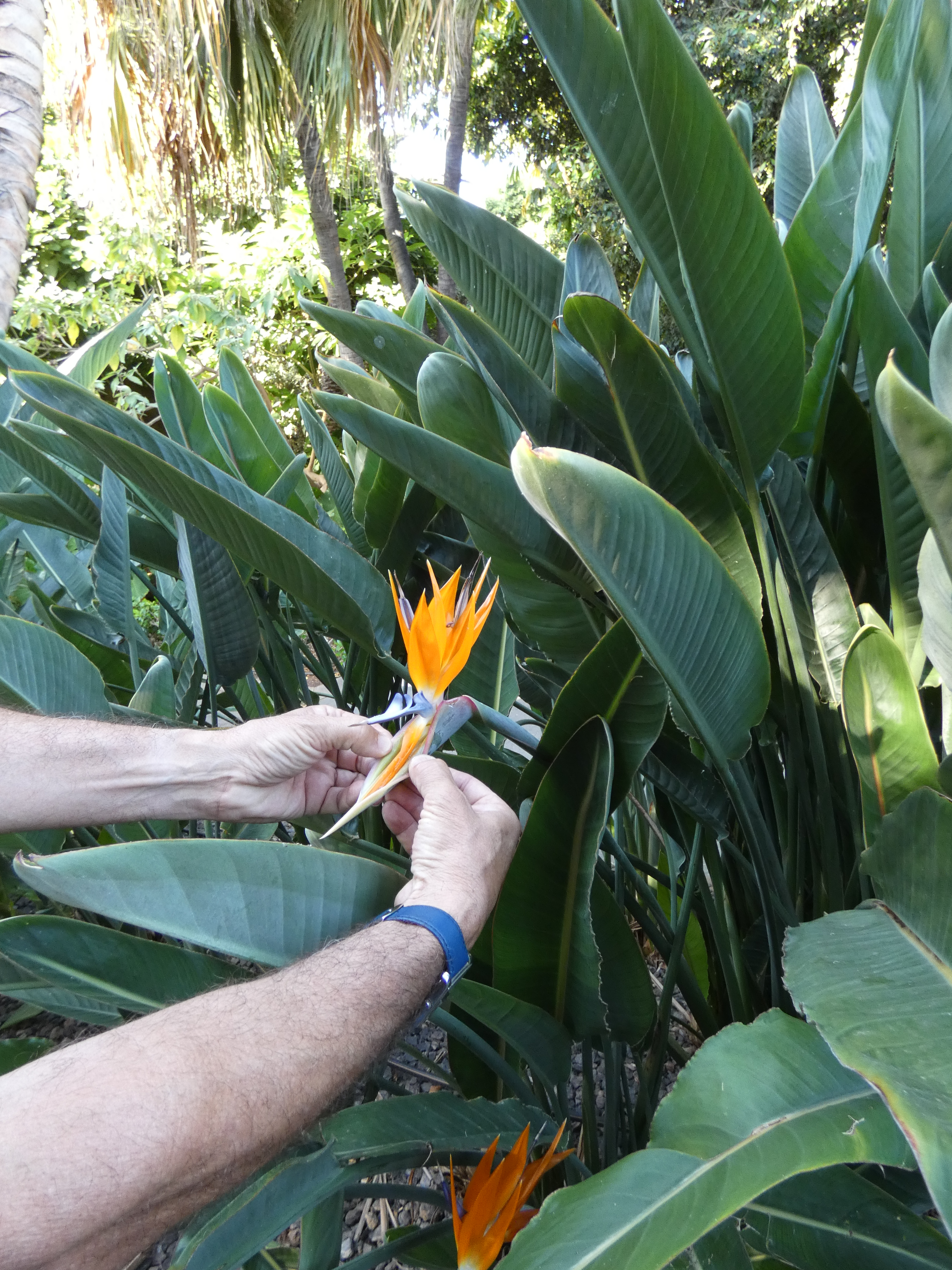 Strelitzia reginae with opened bract (hypsophyll) from Parque García Sanabria, Tenerife